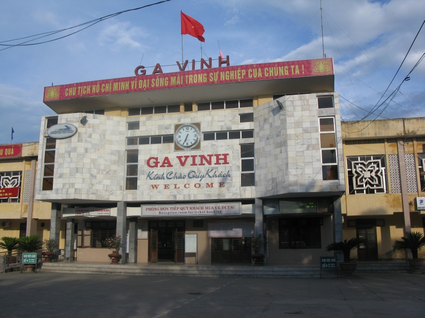 Vinh Station, Vinh, Nghe An, Vietnam.